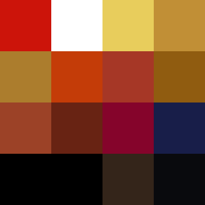 Colours used to paint The Raft of the Medusa (French: Le Radeau de la Méduse) 1818–19 by Théodore Géricault (1791–1824).[1] Colours vermilion, white, Naples yellow, yellow ochre 1 yellow ochre 2, red ochre 1, red ochre 2, raw Sienna light red, burnt Sienna, crimson lake, Prussian blue peach black, ivory black, Cassel earth, bitumen The colours shown are derived from the equivalent colours shown on samples from modern suppliers of paint for artists. Manufacturers vary, so the colours shown should be taken as a general guide only. ↑ Christiansen, Rupert. The Victorian Visitors: Culture Shock in Nineteenth-Century Britain". New York Times, June 3, 2001. Retrieved on January 04, 2008.